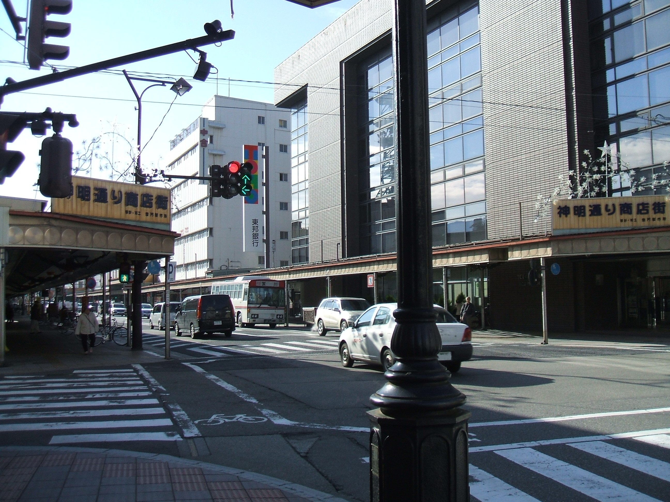 A landscape of "Shinmei-Dori" Street of Aizuwakamatsu, Fukushima. This is taken at a north crossing street.